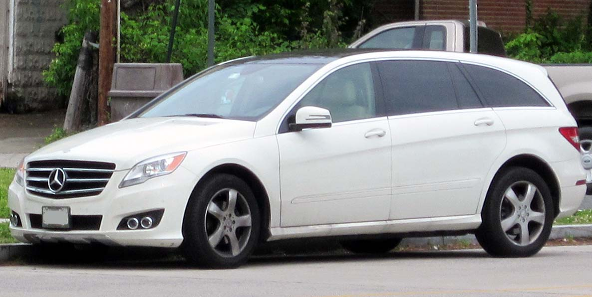 2011-2012 Mercedes-Benz R-Class photographed in Washington, D.C., USA.